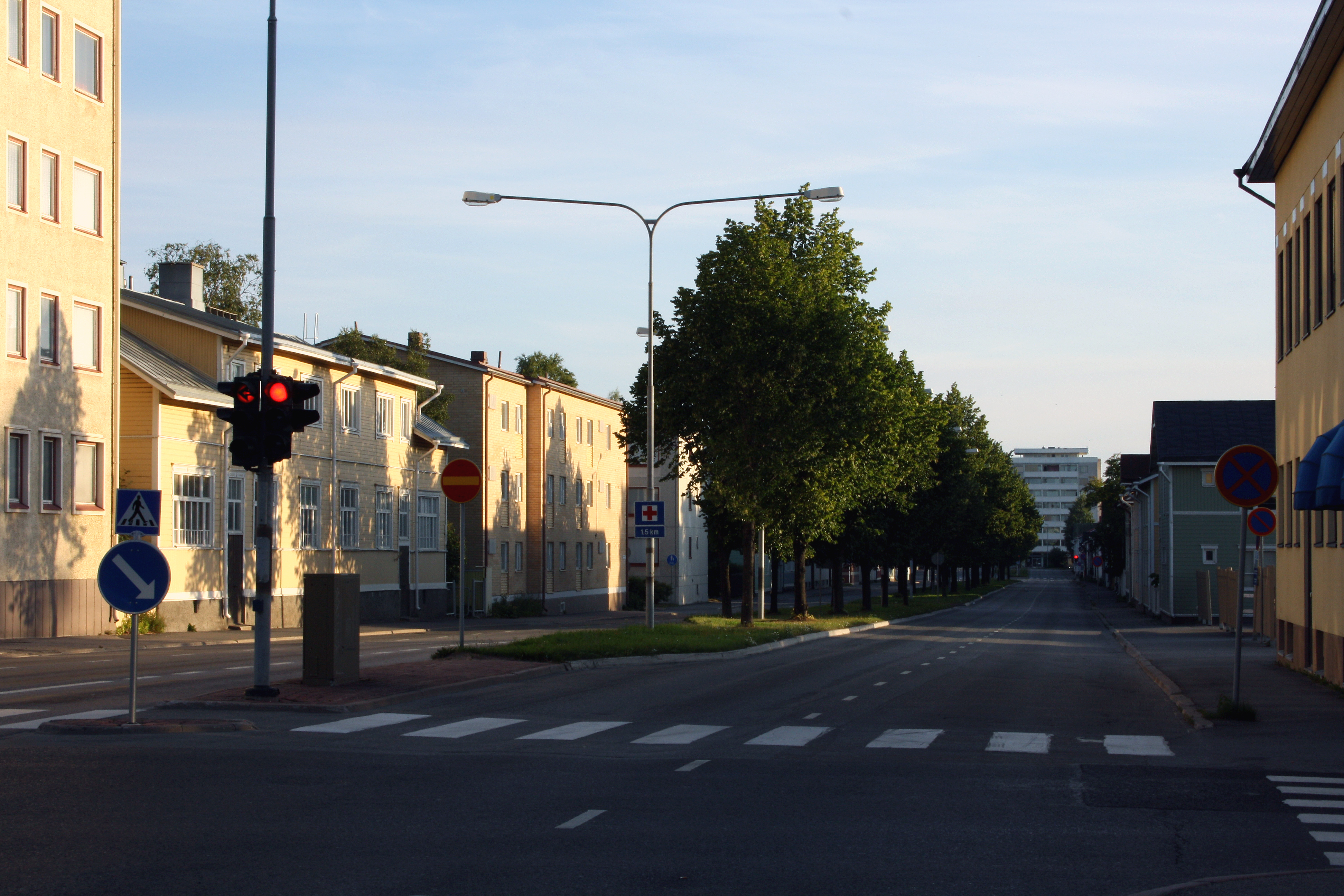 Kustaa Aadolfin katu in Kokkola, Finland